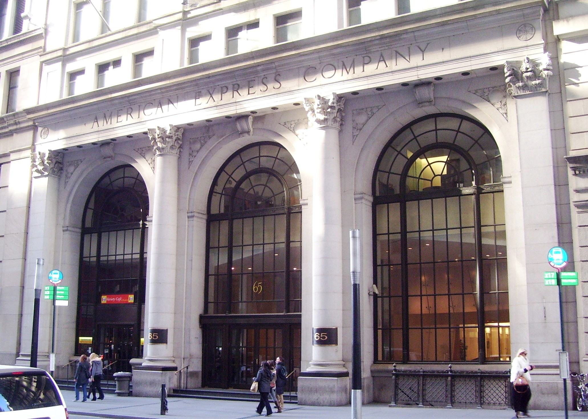 The American Express Company Building at 65 Broadway between Morris Street and Rector Street in the Financial District of Manhattan, New York City was built in 1914-1917 and was designed by James L. Aspinwall of the firm of Renwick, Aspinwall & Tucker in the neo-classical style. The 21-story building goes through to Trinity Place, and was the headquarters of American Express until 1975. The concrete and steel-frame building was designated a New York City landmark in 1995. (Source: Guide to NYC Landmarks (4th ed.))